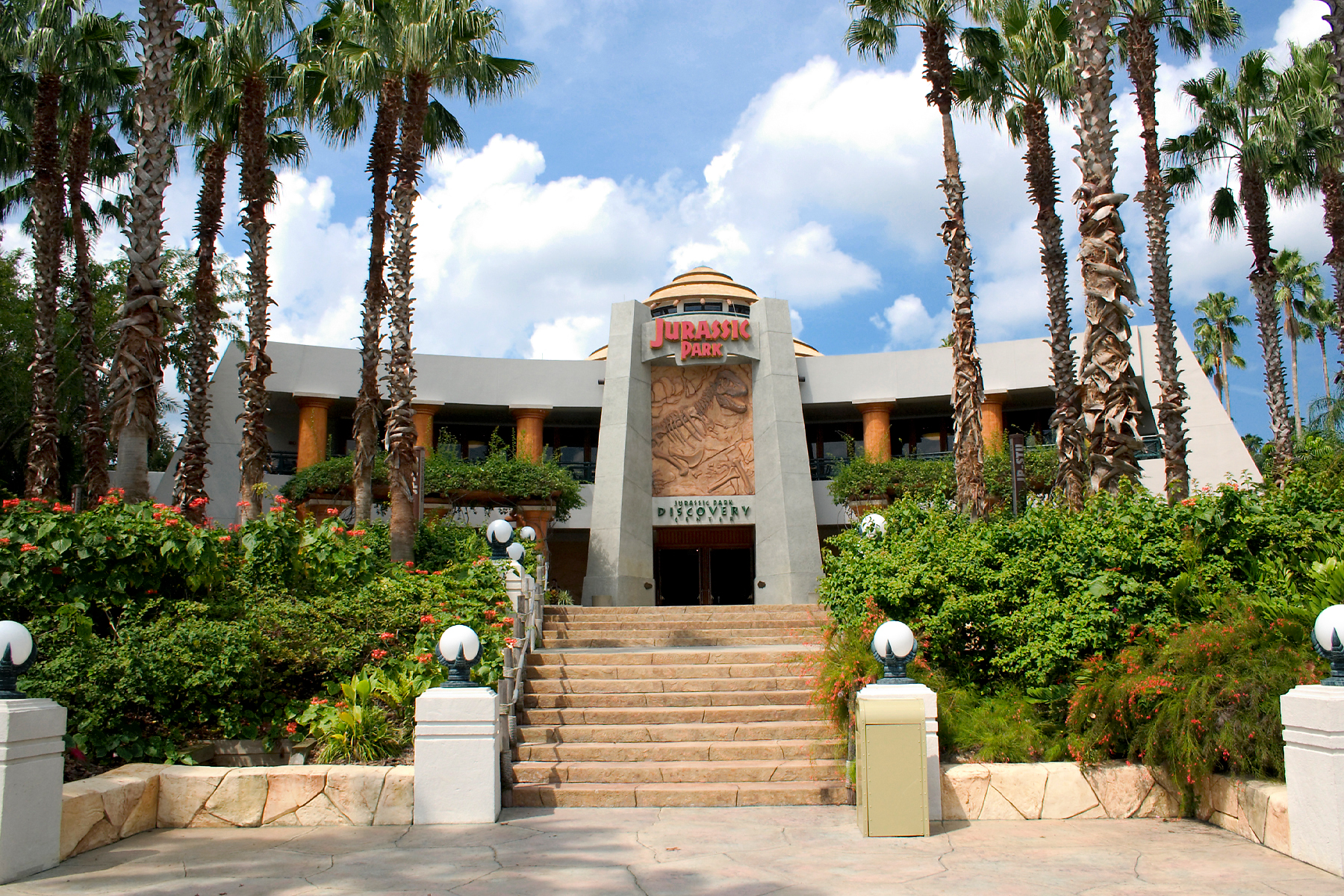 The Discovery Center in Jurassic Park at Universal Studios' Islands of Adventure, Orlando, Florida